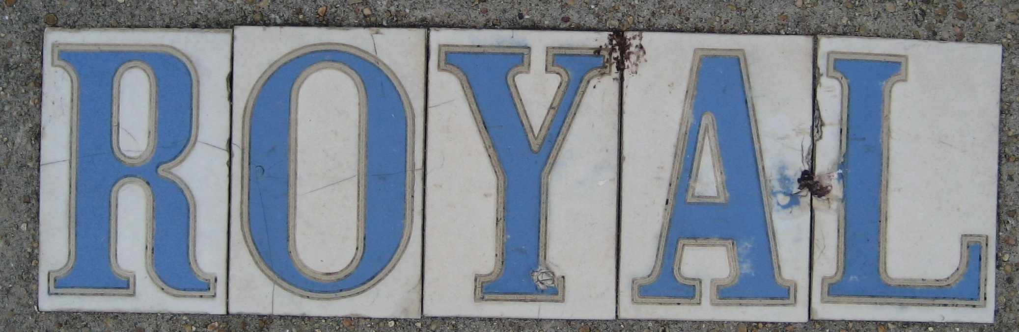 New Orleans: Royal street tiles, Bywater neighborhood